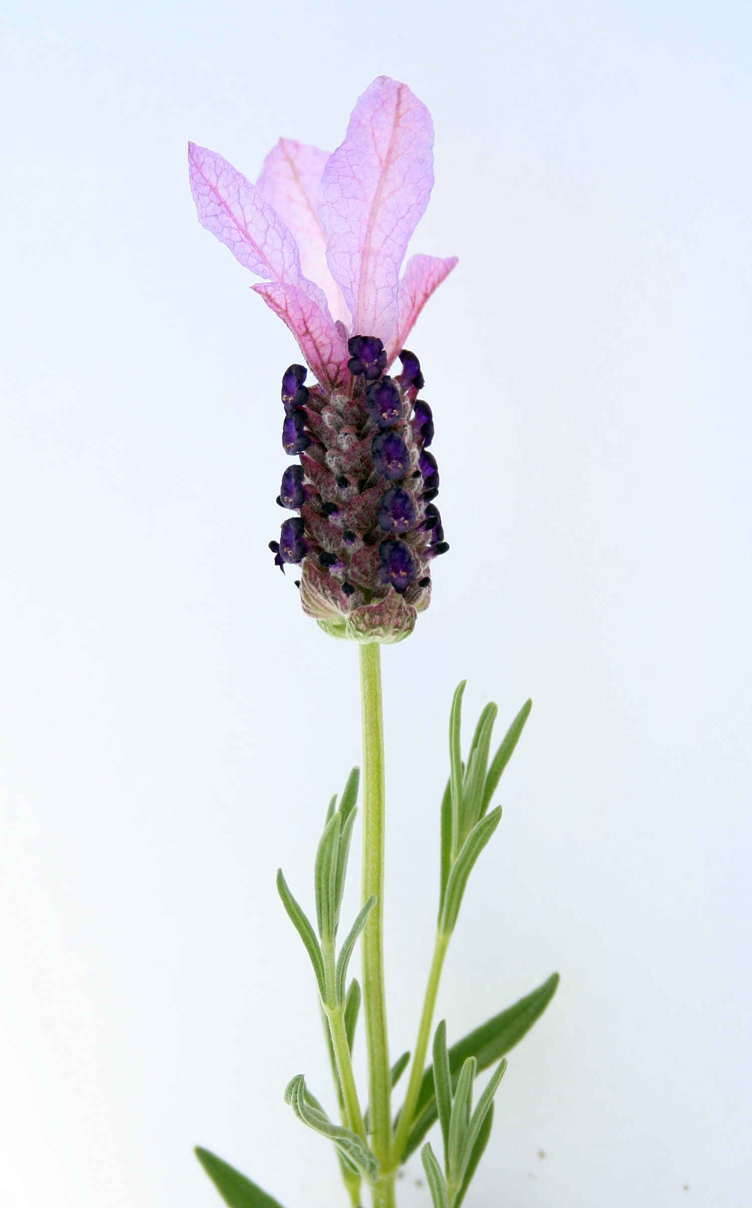 French Lavender, Spanish Lavender, Stoechas Lavender, Topped Lavender, Lavandula stoechas, Family: Lamiaceae, Location: Southern Germany, Ulm, Garden